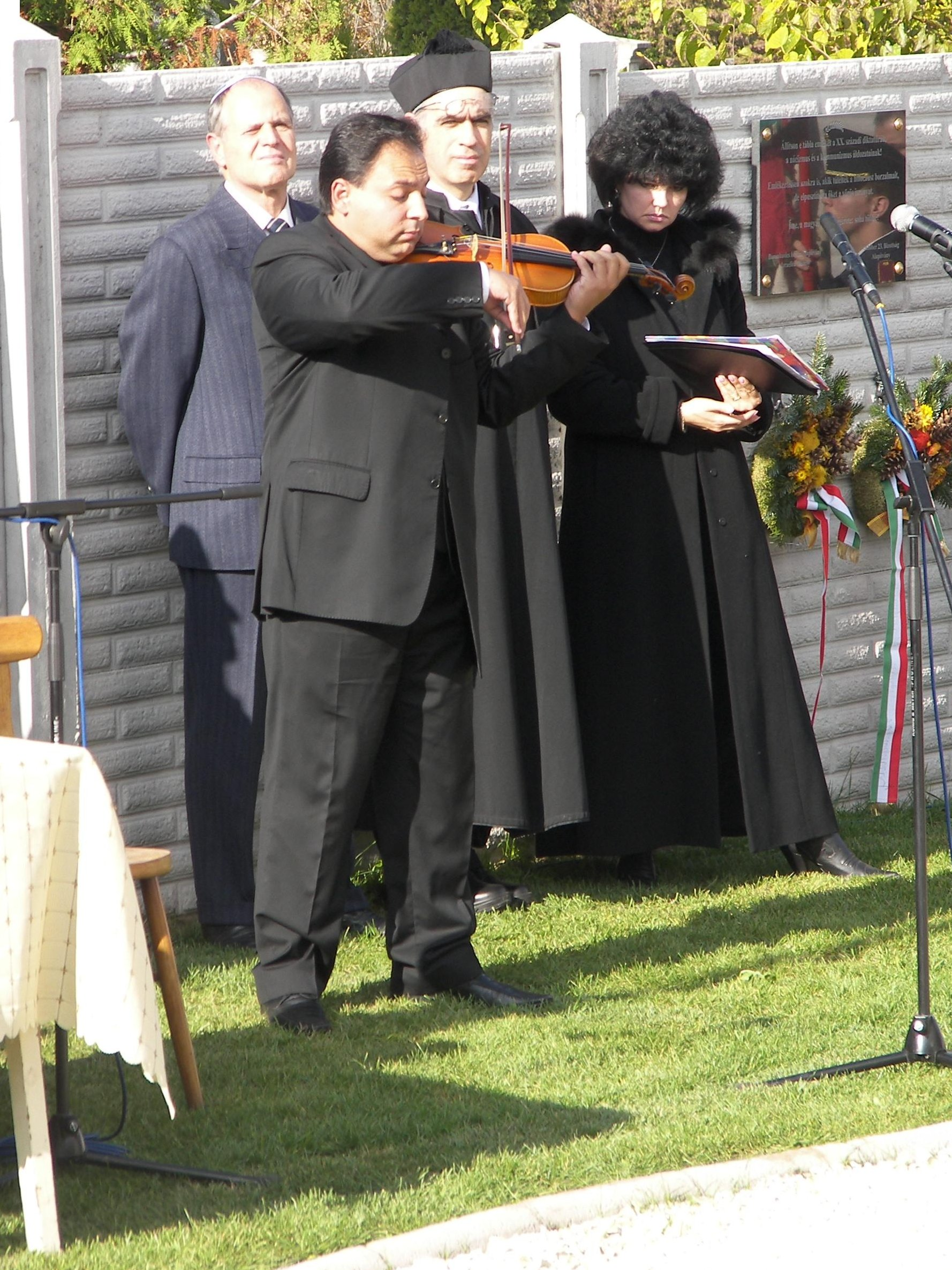 Fekete László cantor and Mága Zoltán violin virtuoso commemorates the Jewish and Gipsy victims of communism at the Gloria Victis Memorial